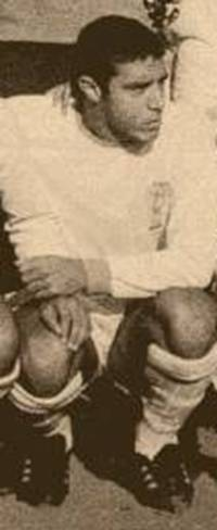 Araquem de Melo Edemil - Huracan C.A. 1968